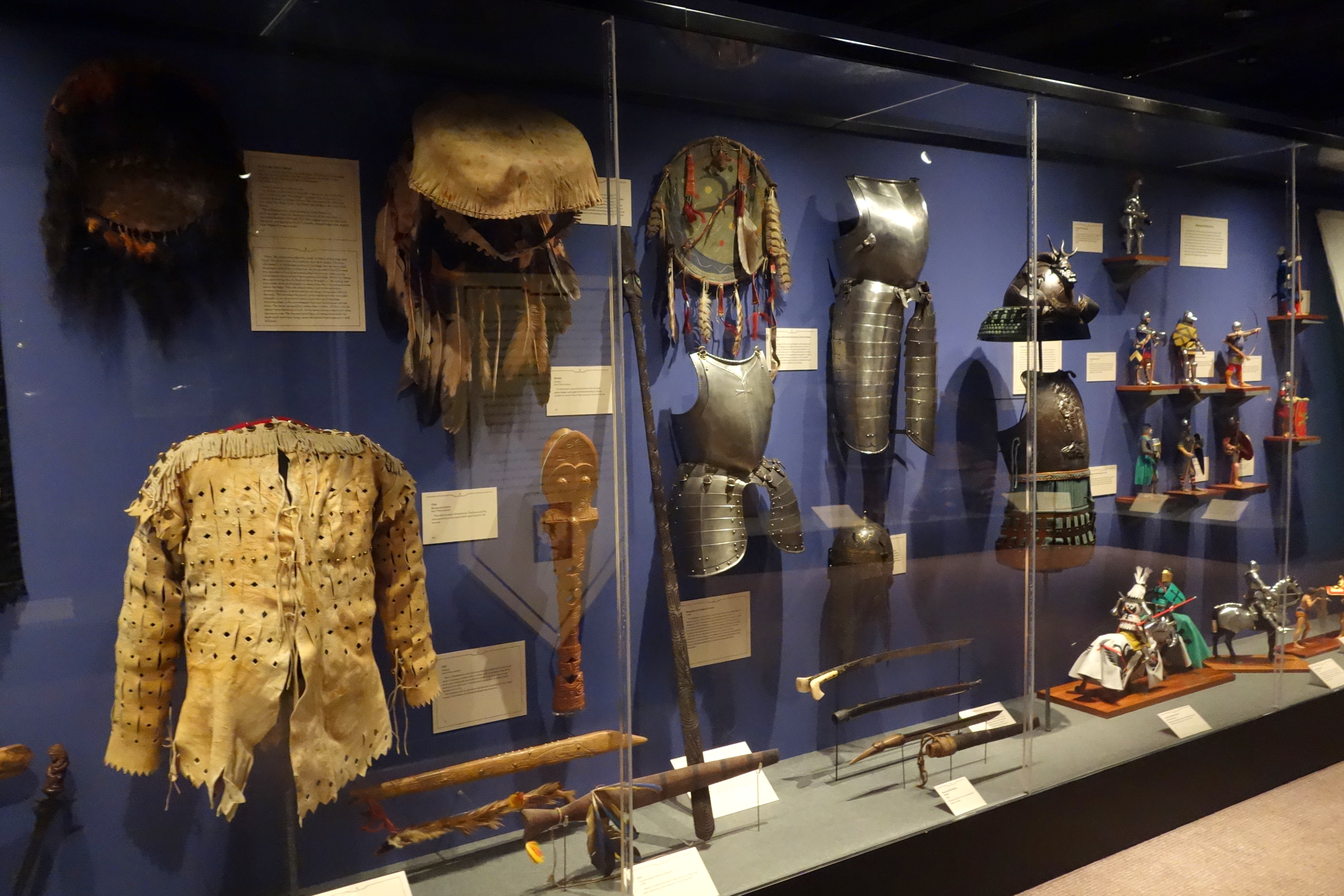 Exhibit in the Glenbow Museum, 130 9th Ave S.E., Calgary, Alberta, Canada. This work is old enough so that it is in the public domain.